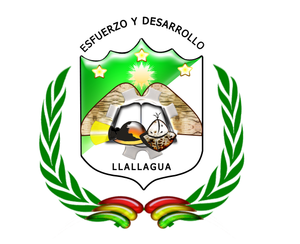 Escudo Oficial del Municipio de Llallagua